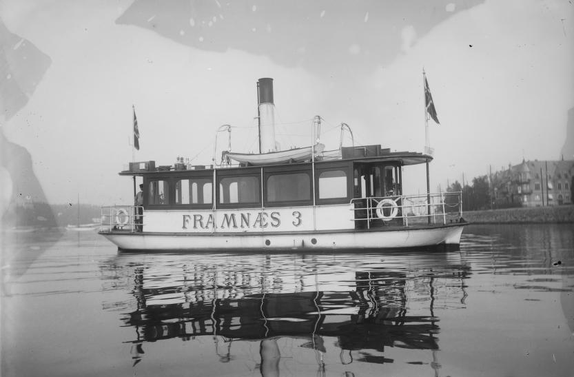 Framnæs 3 (1908)